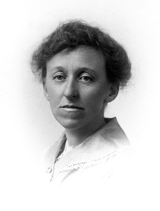 Violet McNaughton, University of Saskatchewan Archives, [From Saskatoon Public Library, Local History Room]. Date: c. 1910. Photographer: Unknown